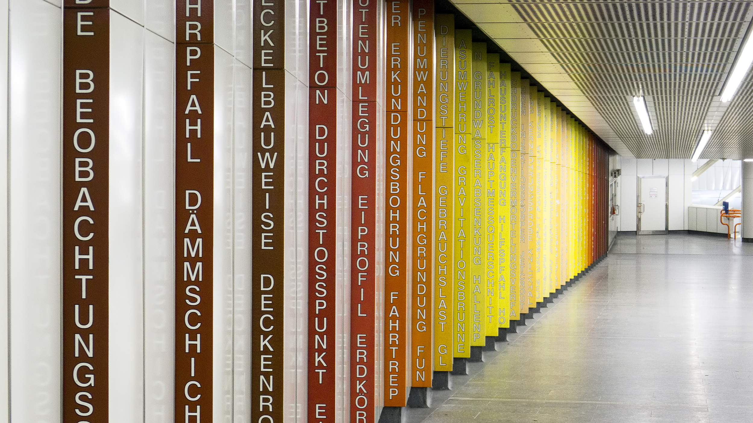 Underground station U-Bahn-Station Hütteldorfer Straße in Vienna 14, sculpture by Georg Salner